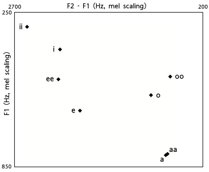 Navajo vowel formants. The graphing the first and second formants of a vowel roughly corresponds to its perceived location on a vowel chart. Formant data from McDonough et al. (1993). First formant (F1) is plotted against the difference between the second and first formants (F2-F1). Formant measurements are in Hz. The frequencies have been converted to a mel scaling (the equation is m e l = ( 1000 / log 10 ⁡ 2 ) ( log 10 ⁡ ( 1 + f r e q u e n c y / 1000 ) ) {\displaystyle mel=(1000/\log _{10}2)(\log _{10}(1+frequency/1000))\ } , which is from Fant (1968)). The F2-F1 vs. F1 plotting (over a F2 vs. F1 plotting) is suggested by Ladefoged (1993). The mel scaling suggestion is from Ladefoged (1967). McDonough's formant values are found here: Navajo phonology: Vowels: Acoustic phonetics. Bibliography: Fant, Gunnar. (1968). Analysis and synthesis of speech processes. In B. Malmberg (Ed.), Manual of phonetics (pp. 173-177). Amsterdam: North-Holland. Ladefoged (1967). Three areas of experimental phonetics. London: Oxford University Press. Ladefoged (1993). A course in phonetics (3rd ed.). Fort Worth: Harcourt Brace College Publishers. McDonough, Joyce; Ladefoged, Peter; & George, H. (1993). Navajo vowels and universal phonetic tendencies. University of California Working Papers in Phonetics, 84, 143-150.